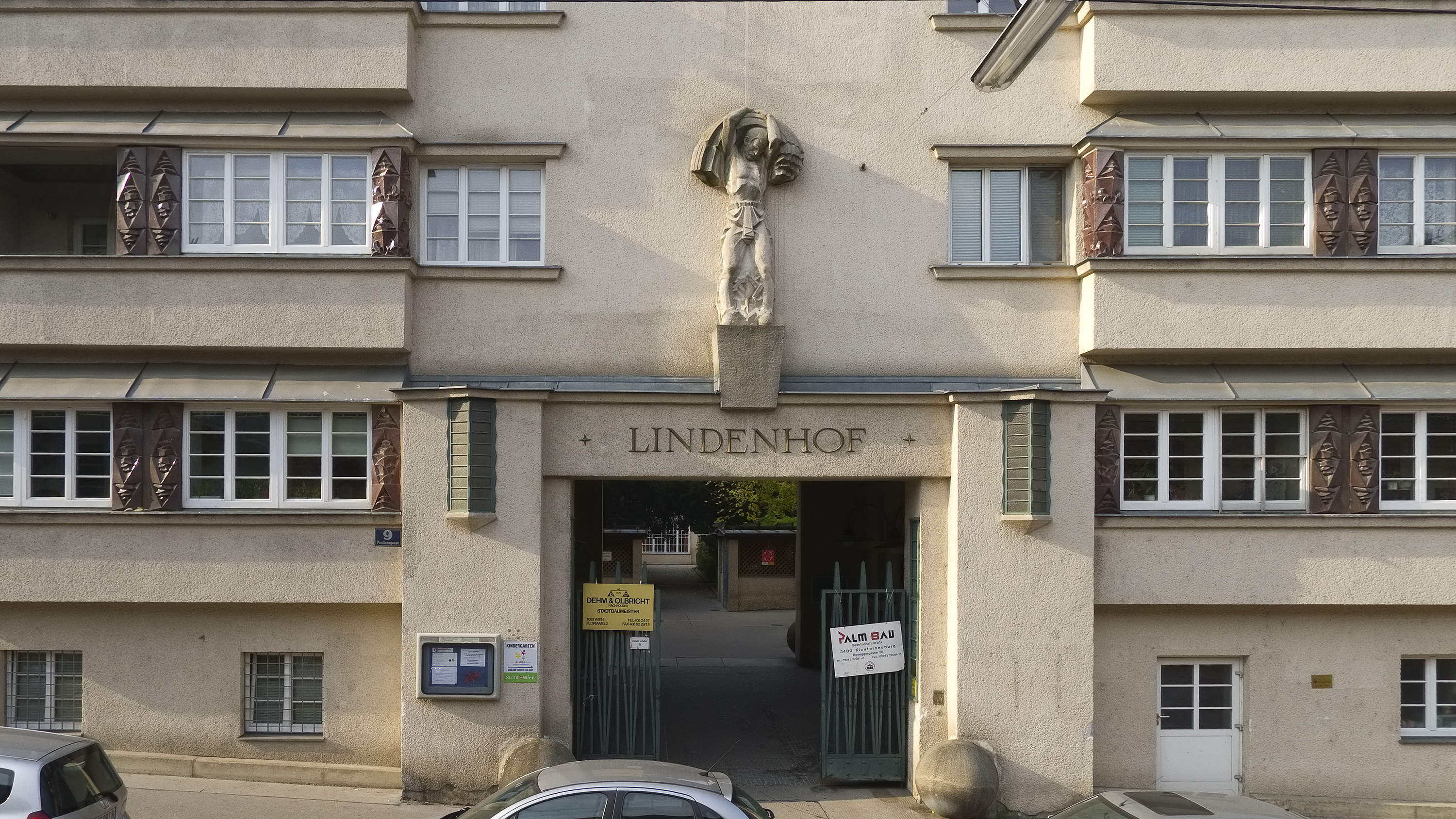 Residential building Lindenhof in Vienna 18